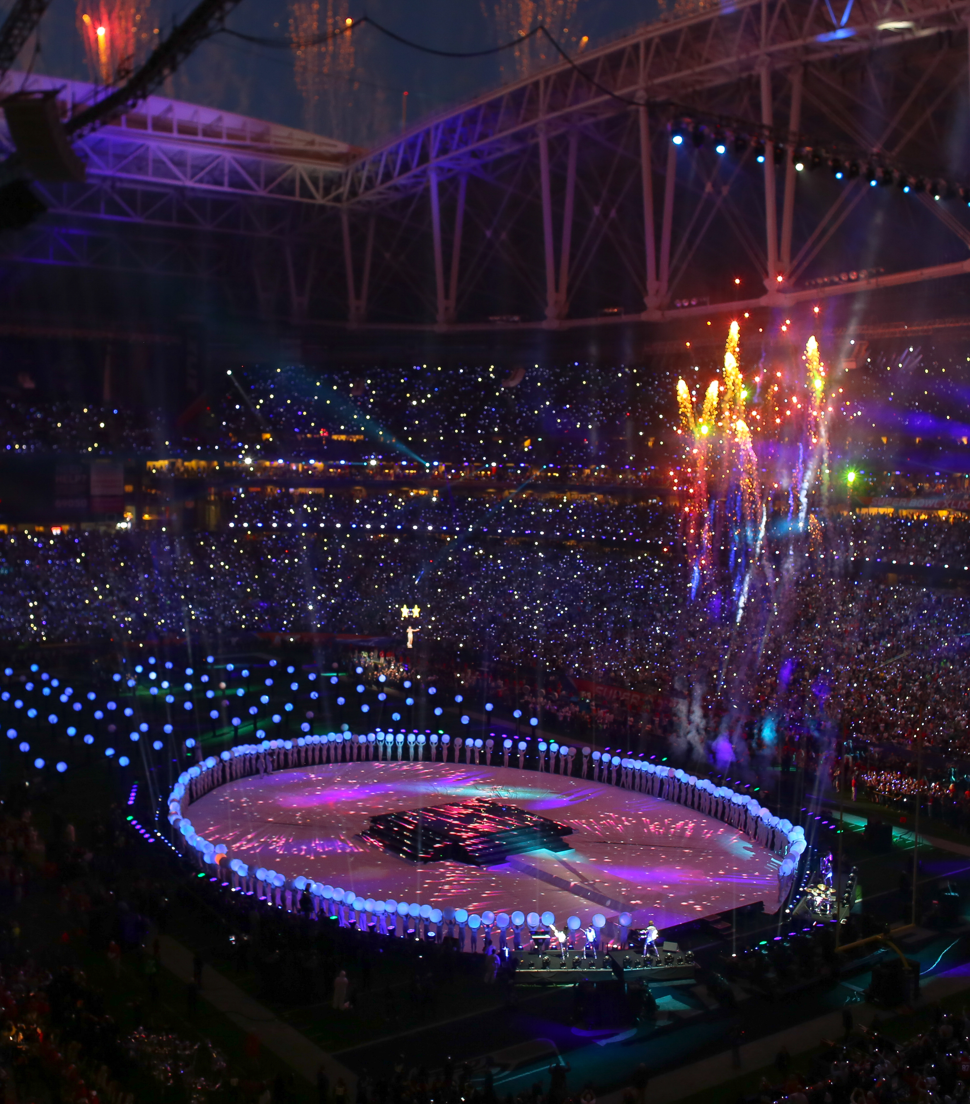 Katy Perry performing "Firework" in the Super Bowl XLIX halftime show.